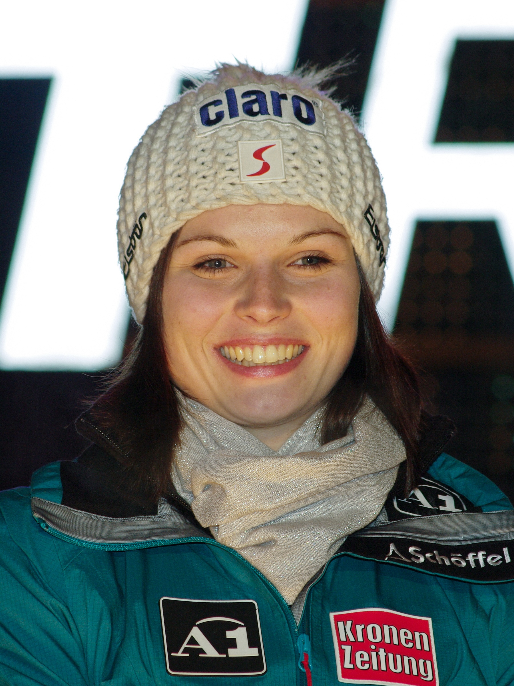 Austrian alpine skier Anna Fenninger at the prize giving ceremony for the Downhill in Altenmarkt-Zauchensee (Austria) on 8 January 2011.